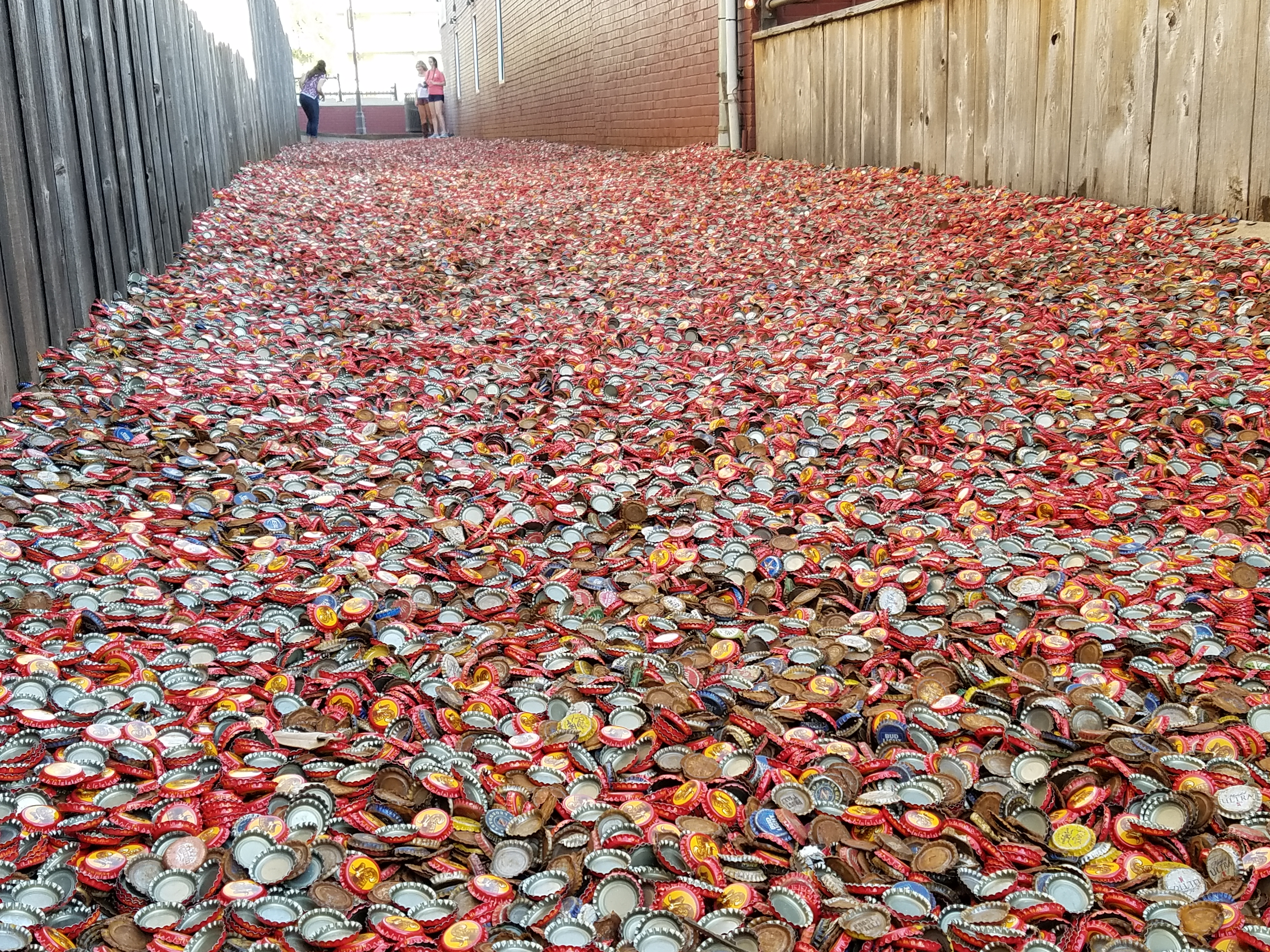 Shiner Bock donated hundreds of thousands of bottle caps to Bottle Cap Alley in 2017. It was christened "Bock Cap Alley" for the day.